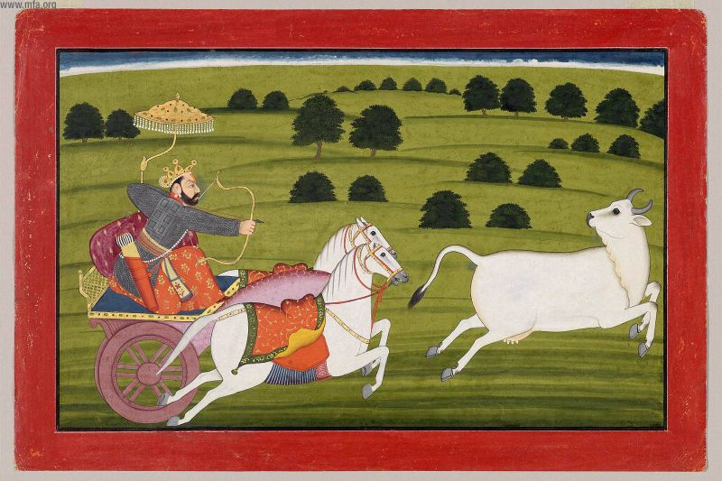 Prthu chases the goddess earth, from an illustrated manuscript of the Bhagavata Purana Indian, Pahari, about 1740